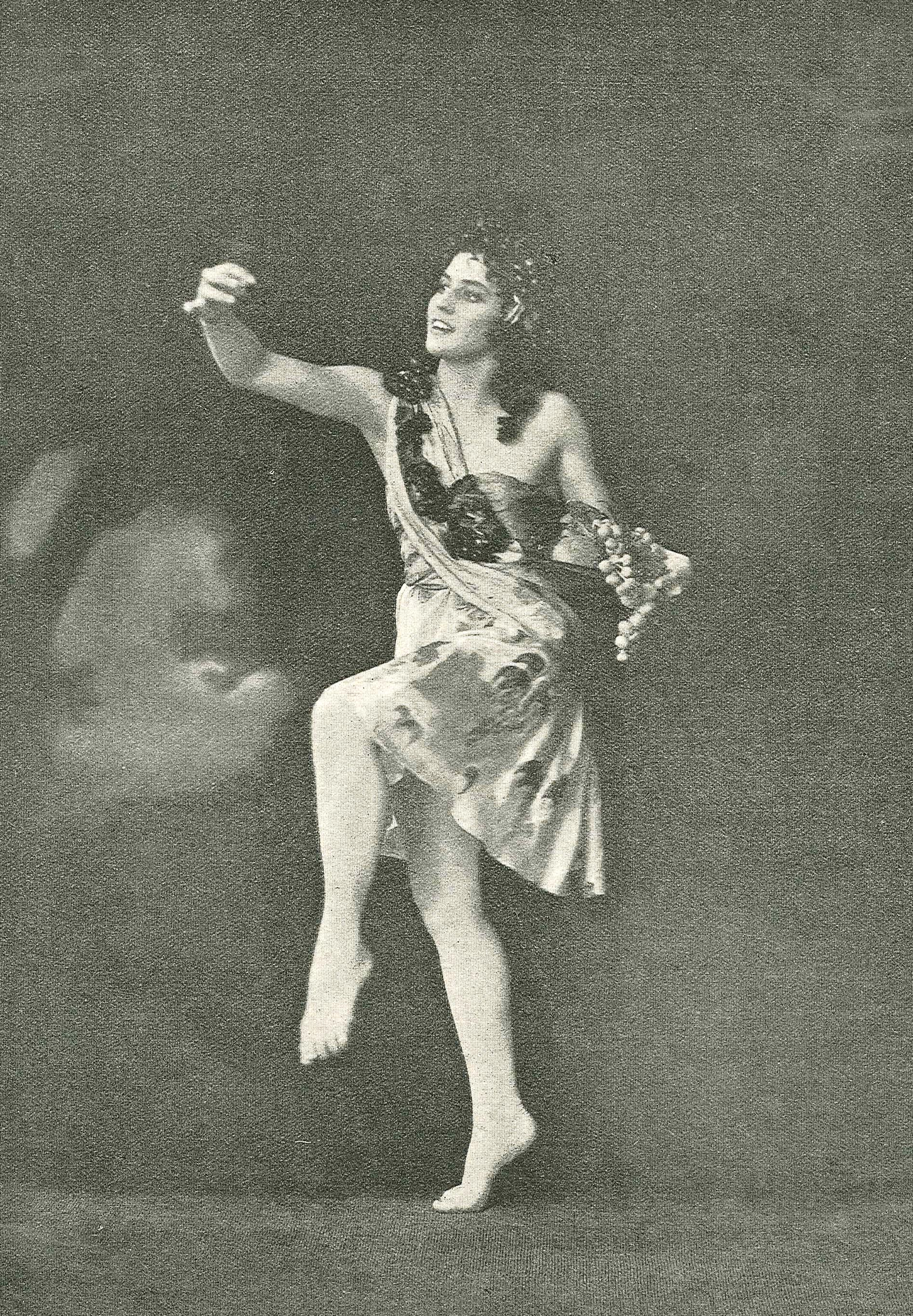 Ebon Strandin (1894-1977), Swedish prima ballerina in a number called De fem sinnena (The five senses) at the Royal Swedish Ballet.